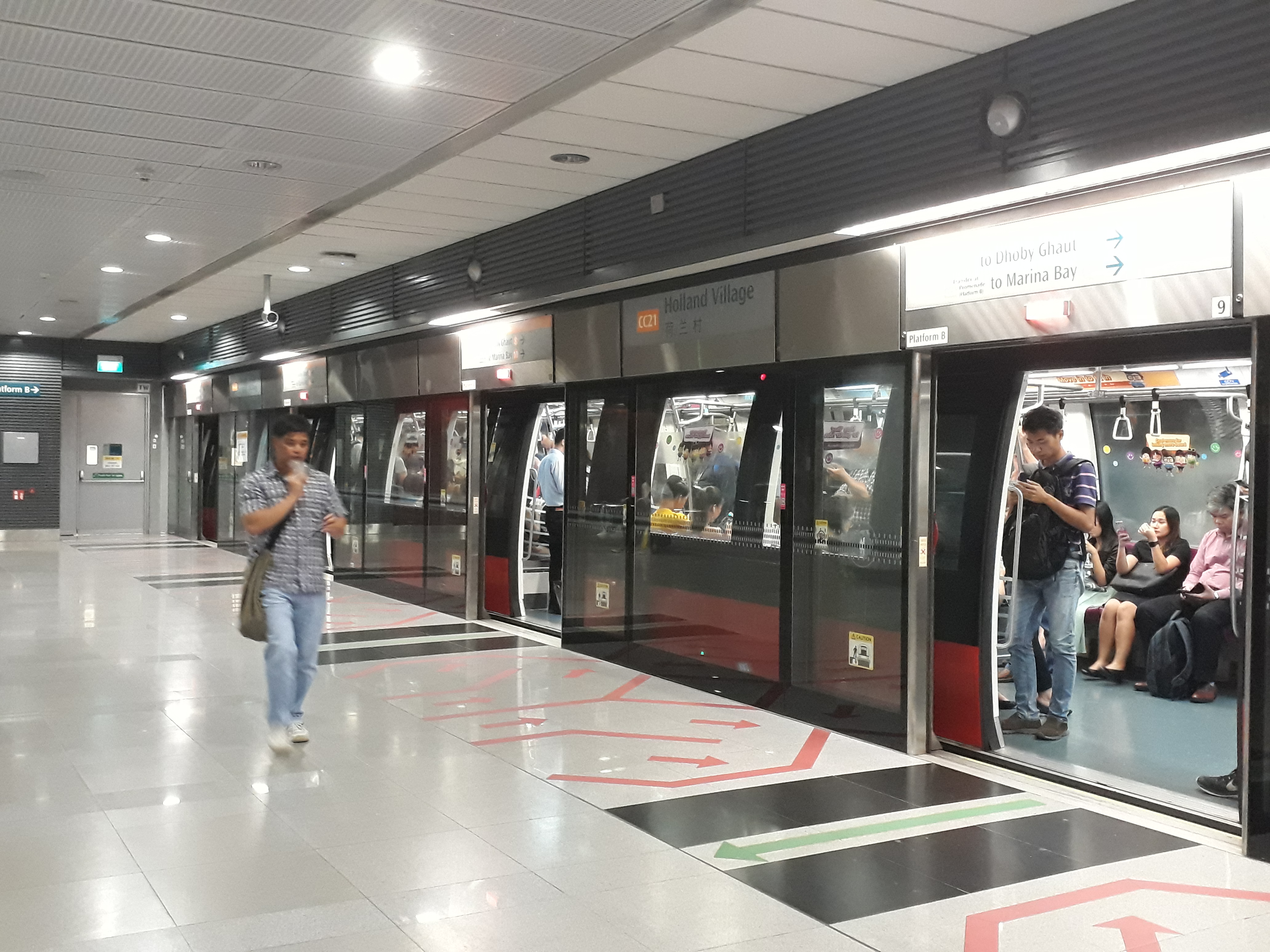 Platform B of Holland Village